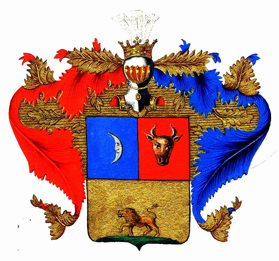 Coat of Arms of Stankiewicz family